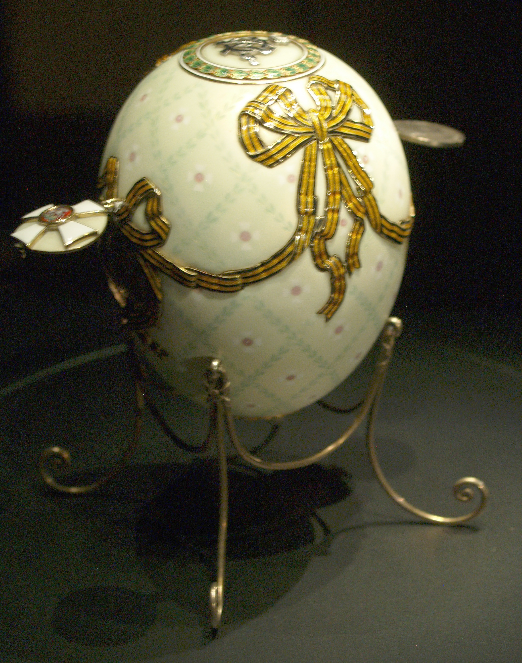 The Faberge Easter egg "Order of St. George" photographed at an exhibition in Rome.